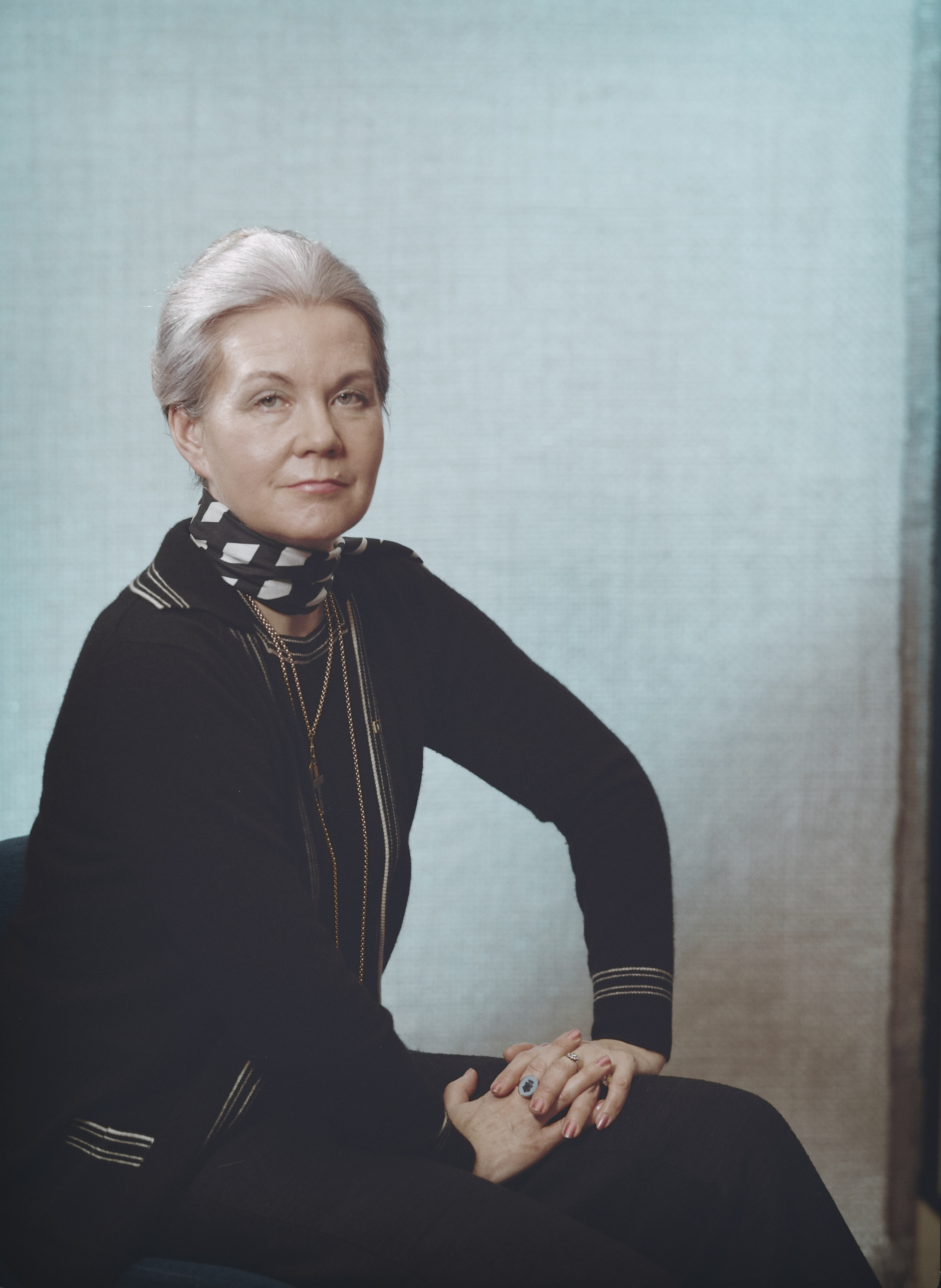 Photograph of the Finnish writer Maria Berg (1923–2008).